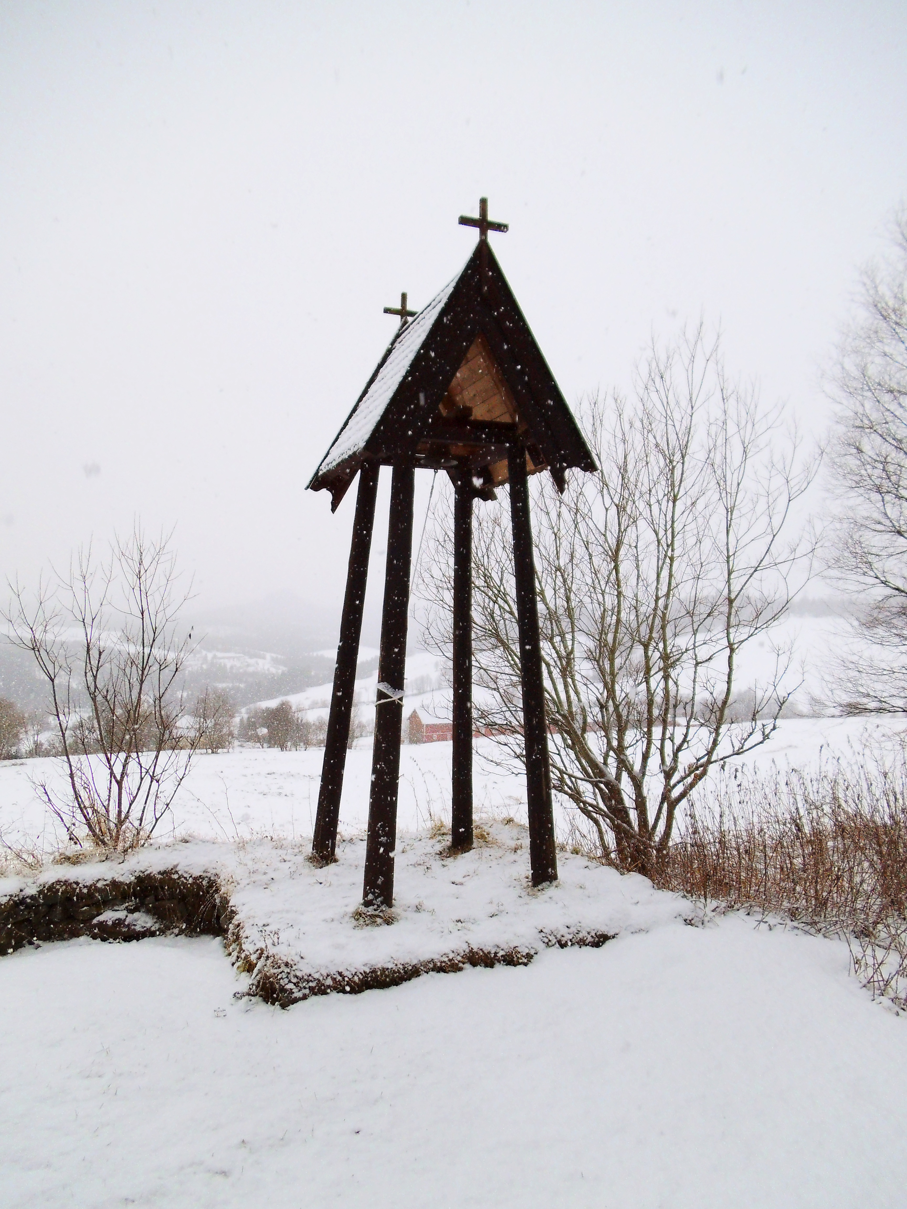 Kolbrandstad stavkirke. A stave church in Korsvegen, Norway. The bell house.